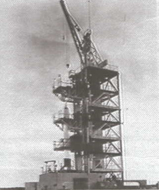 Viking rocket #14